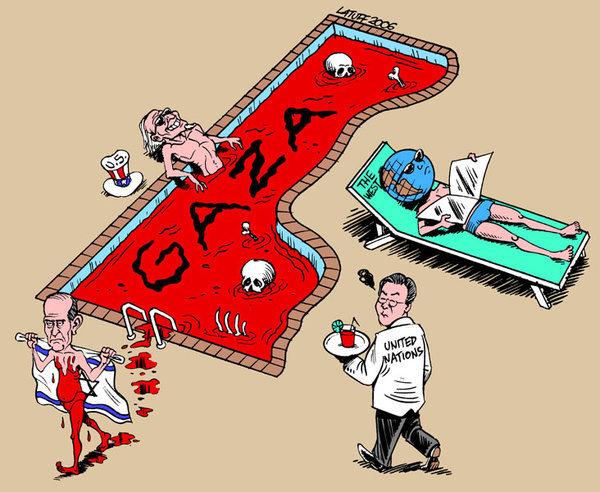 Gaza